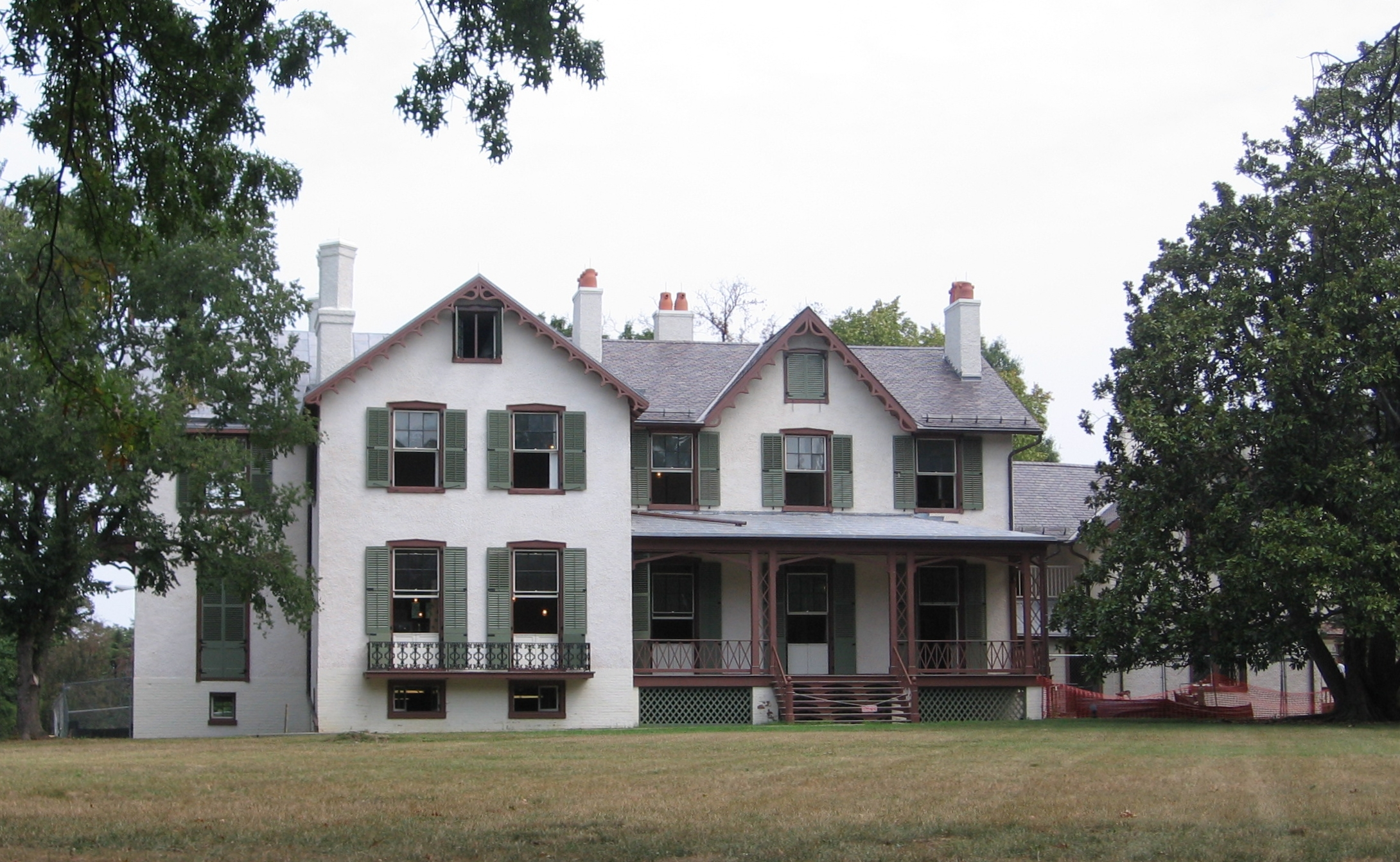 Lincoln Cottage in August of 2007. This photo was taken by Mvincec on 9 August, en:2007.